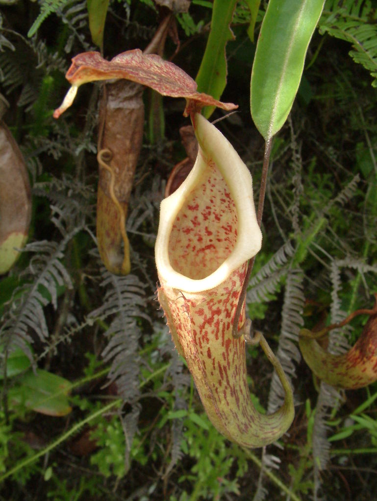 Nepenthes maxima from Sulawesi (400 m altitude)